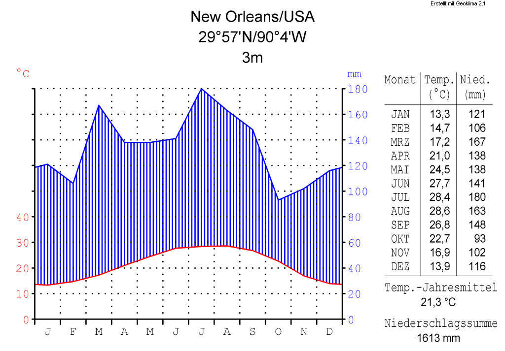 climate chart in the format by Walther and Lieth, metric, °Celsisus and millimeters, made with Geoklima 2.1